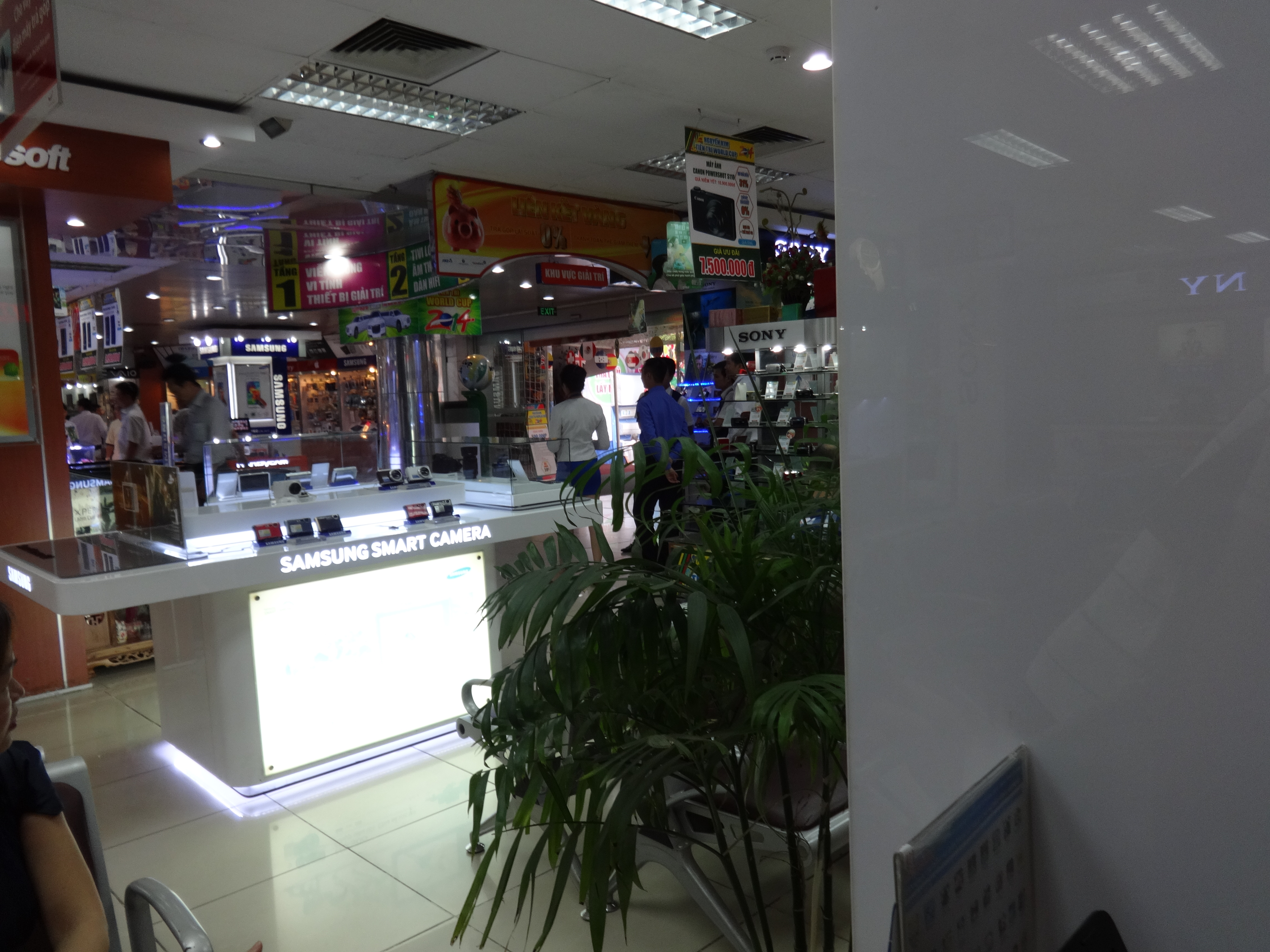 Inside the Hoàn Kiếm Nguyễn Kim Shopping Center!